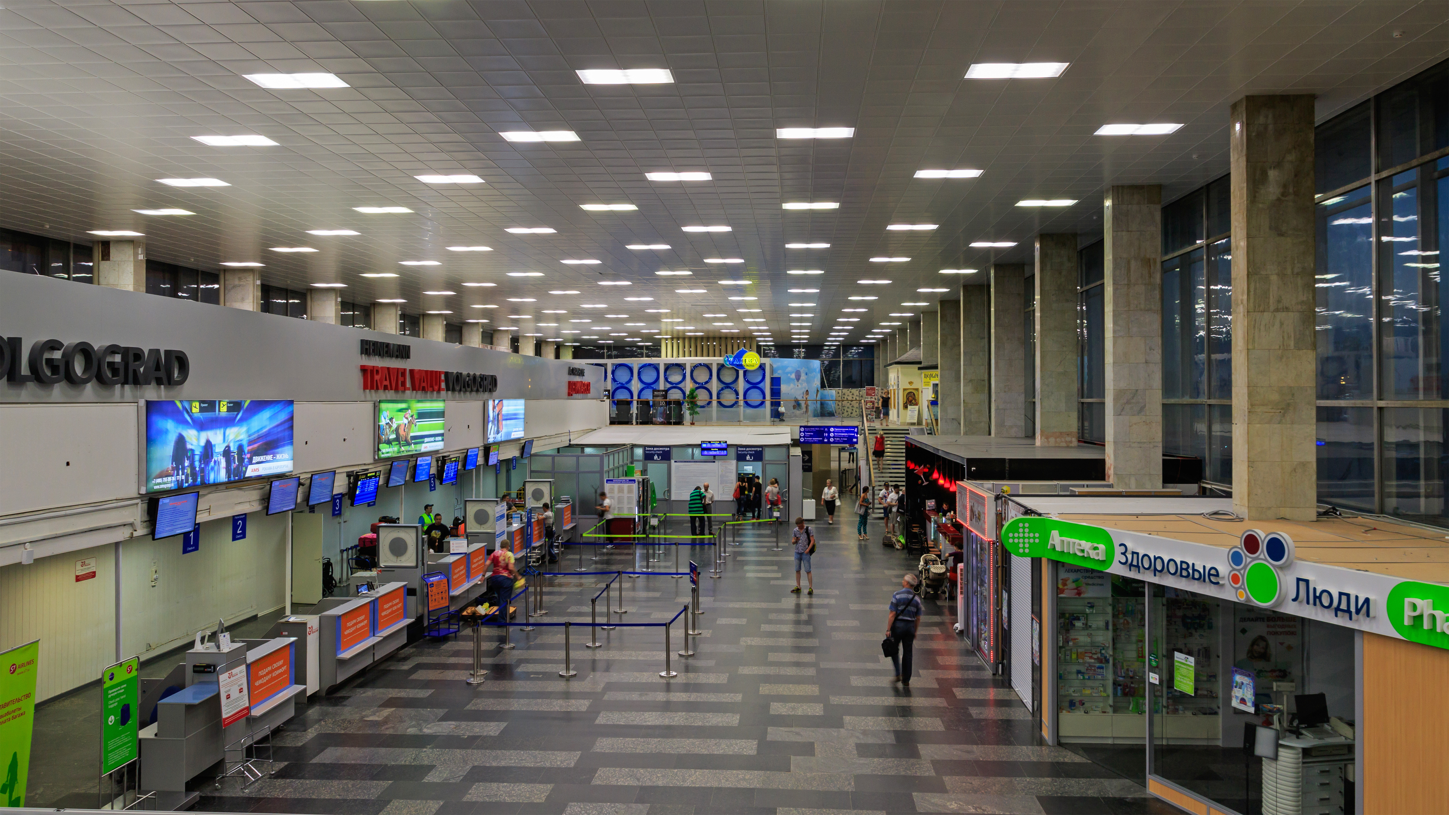 Gumrak Airport in Volgograd, Russia